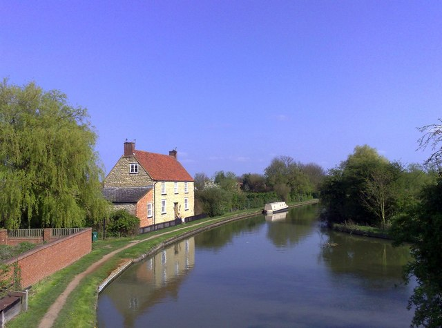 The Wharf, Great Linford Old building on the canal at Great Linford viewed from the bridge.